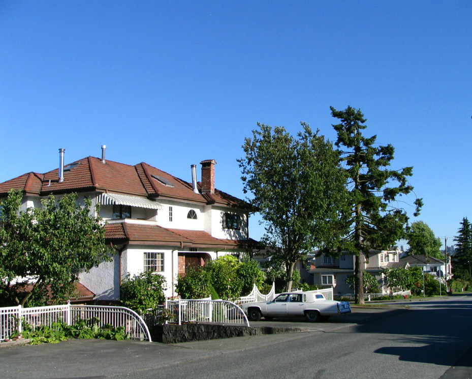 This image was created by me, Flying Penguin of Pacific Spirit Photography ( of Burnaby, BC, Canada